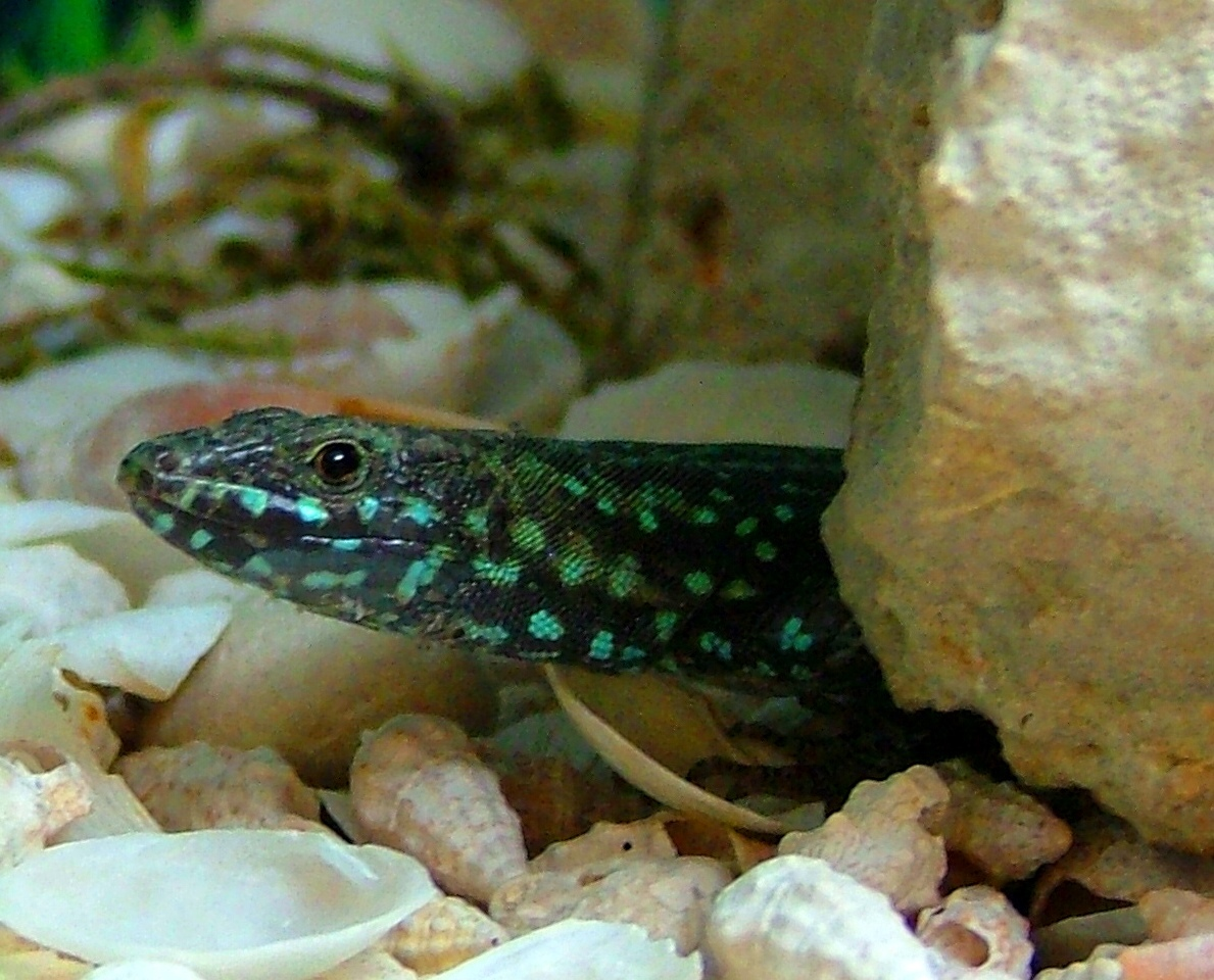 Podarcis filolensis ssp. filfolensis photo by Arnold Sciberras